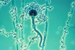 Conidiophores of Aspergillus. It may be Aspergillus fumigatus. Source: US Department of Health and Human Services, Center for disease control [1].